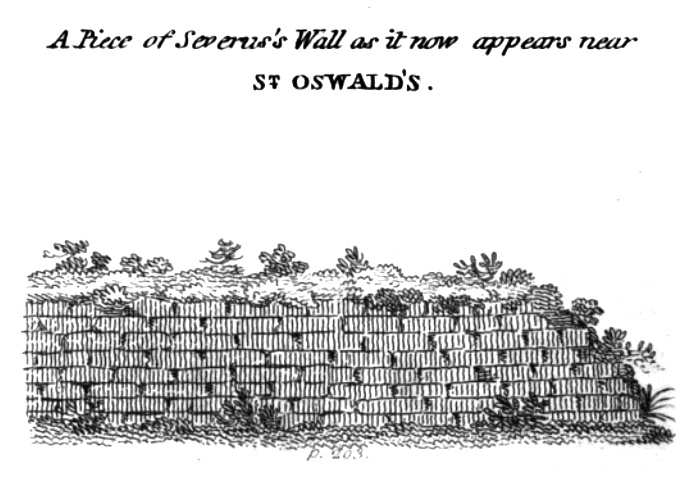 The Wall at St Oswalds. Plate from page 203 of The History of the Roman Wall by William Hutton. Printed by John Nichols and Son, London, 1802.